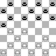 Opening "Igra Bodyanskogo"